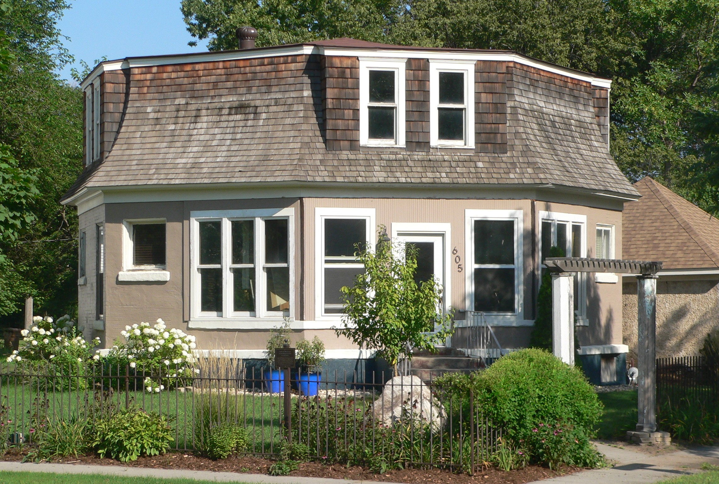 Drake octagon house, at northwest corner of 3rd Street SW and Montana Avenue in Huron, South Dakota; seen from the south-southeast.